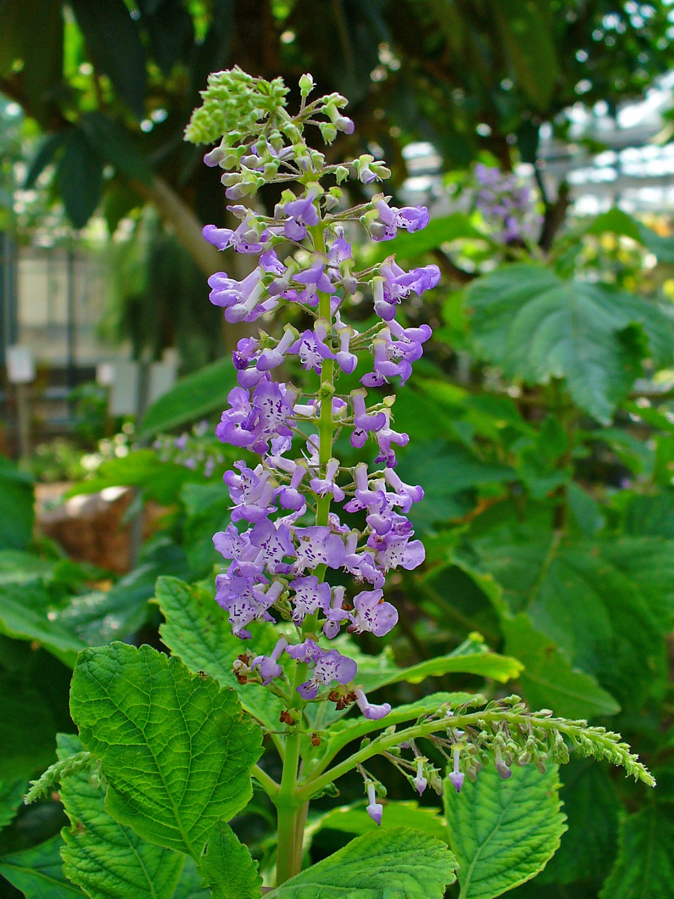 Plectranthus fruticosus, Lamiaceae, Spurflower, inflorescence.